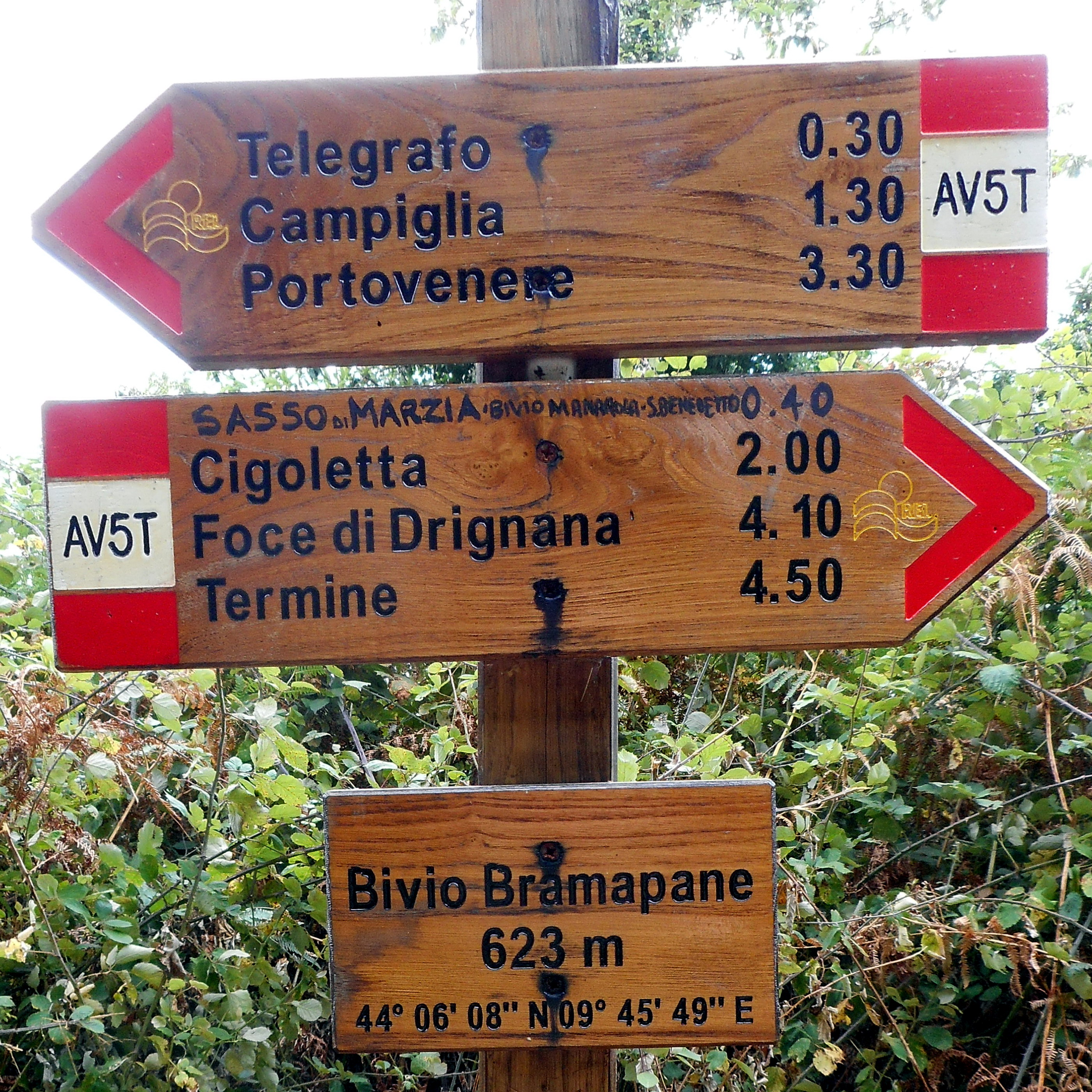 signs on the path AV5T, 5 Terre, La Spezia